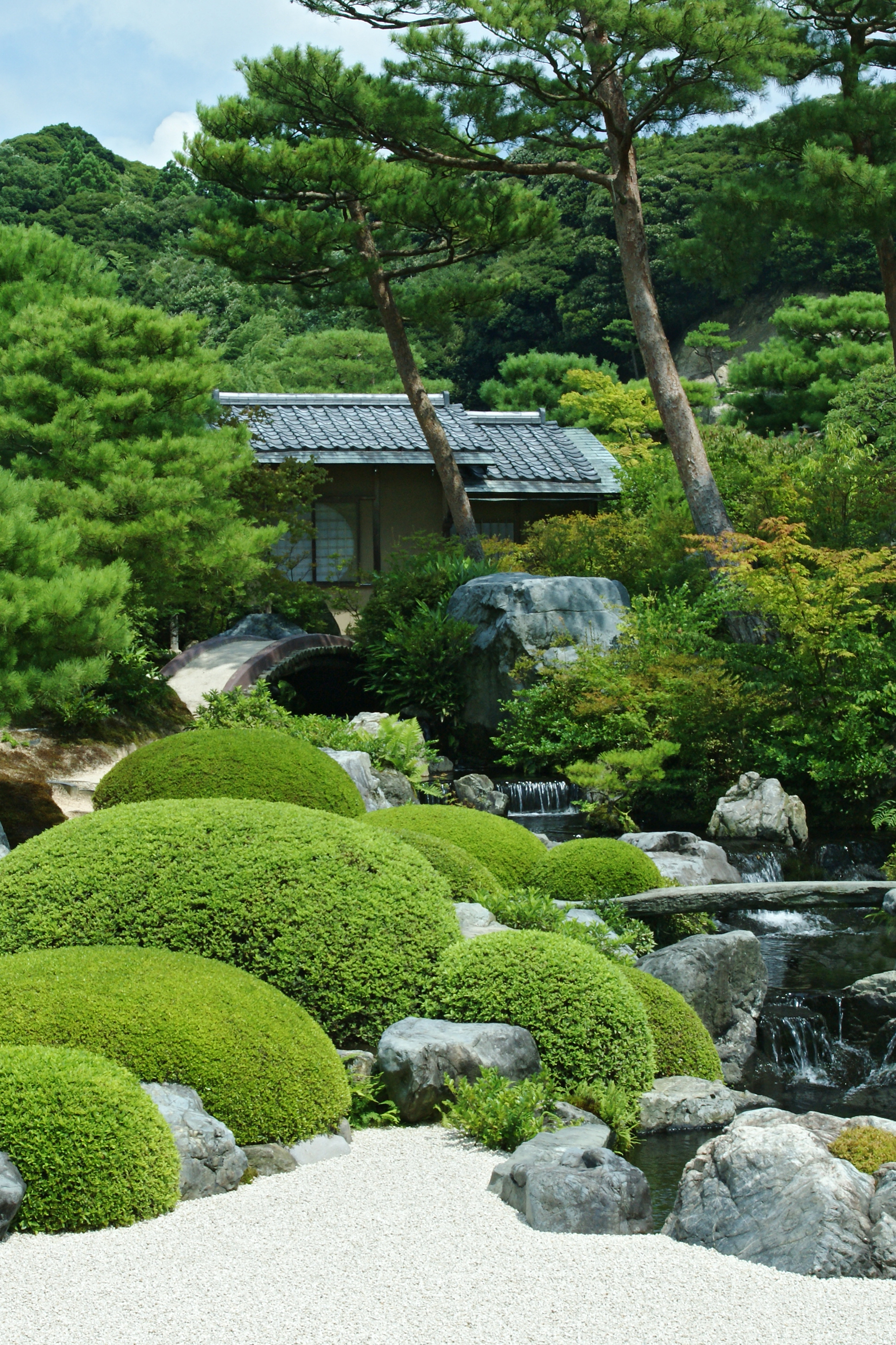 Adachi Museum of Art in Yasugi, Shimane prefecture, Japan